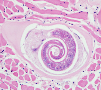 Adult Trichinella spp. reside in the intestinal tract of the vertebrate host; larvae can be found encapsulated in muscle tissue. Diagnosis is usually made serologically or based on observation of the larvae in muscle tissue following biopsies or autopsies.